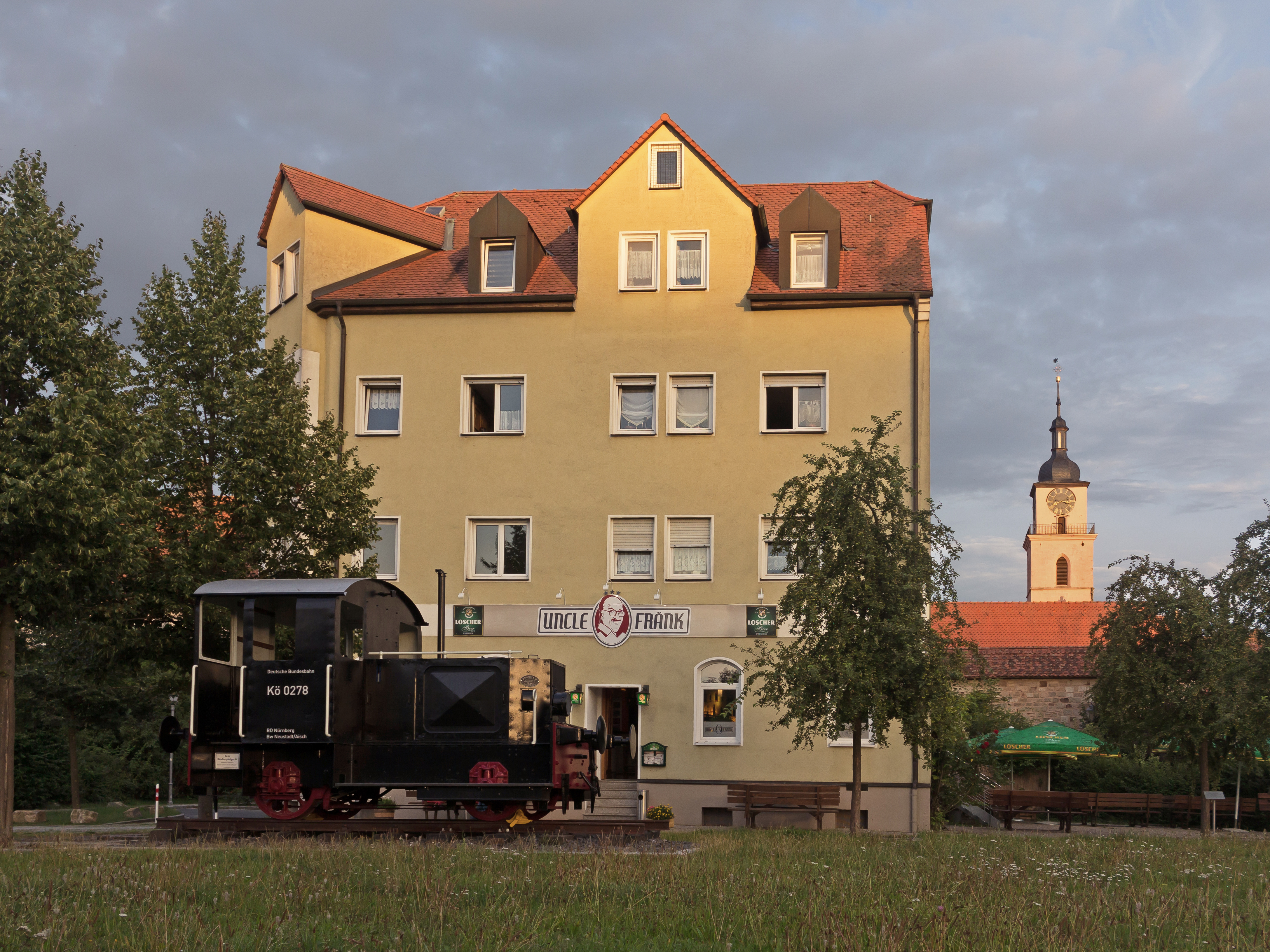 Neustadt an der Aisch, bar Uncle Frank met kerktoren op de achtergrondThis is a photograph of an architectural monument.